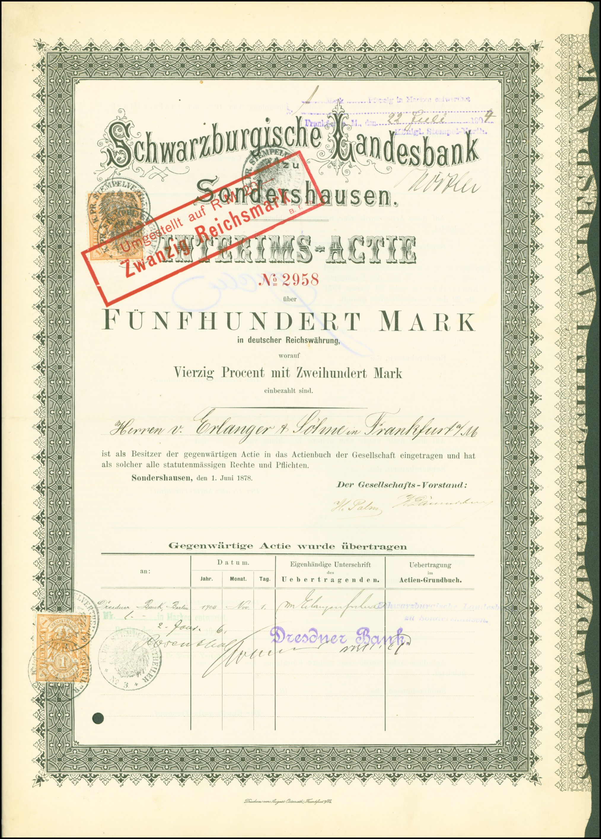 Interim share of the Schwarzburgische Landesbank Sonderhausen, issued 1. July 1878